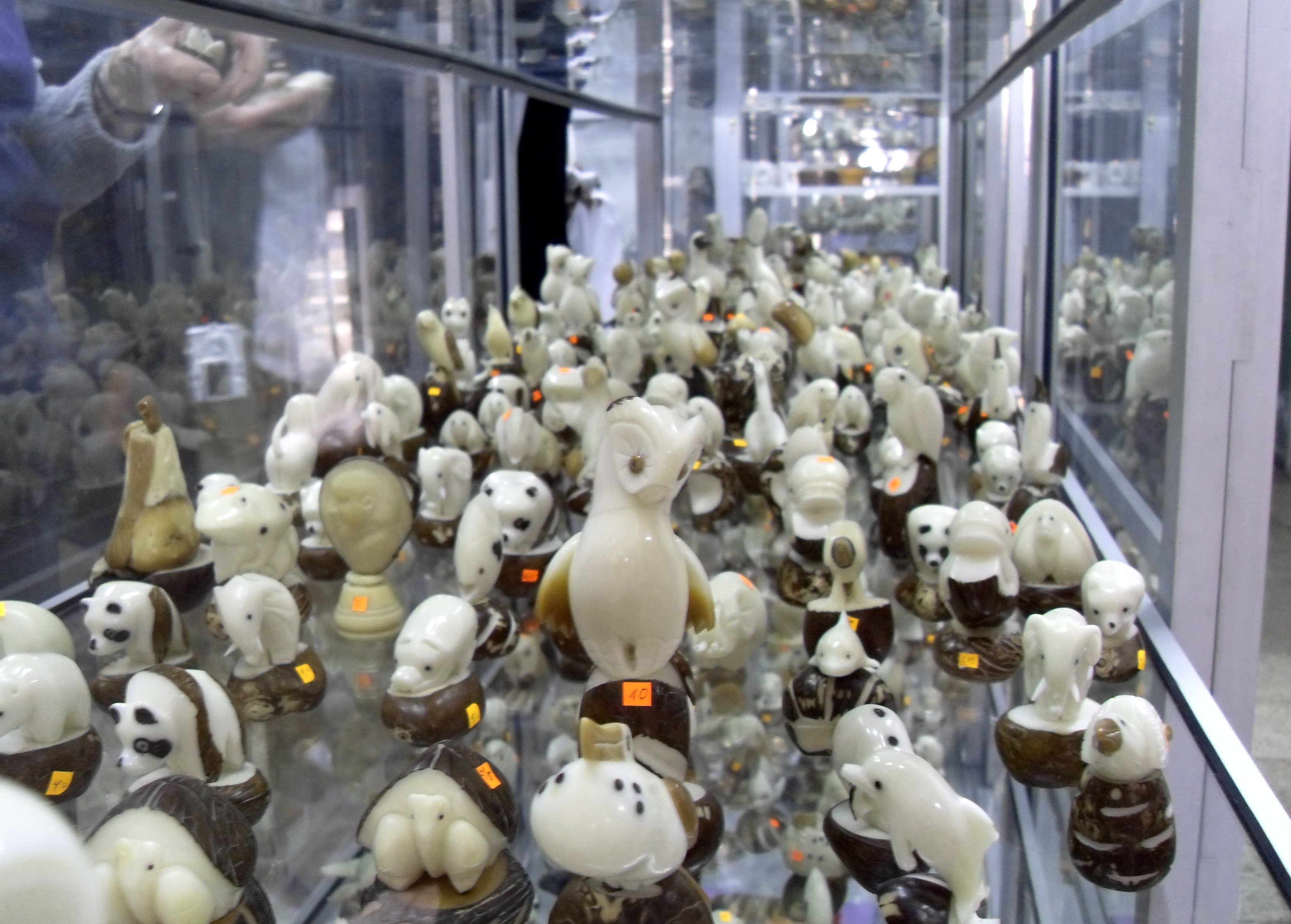 Tagua carvings, seen in Riobamba, Ecuador